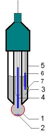 Legend a sensing part of electrode, a bulb made from specific glass sometimes electrode contain small amount of AgCl precipitate inside the glass electrode internal solution, usually 0.1M HCl for pH electrodes or 0.1M MeCl for pMe electrodes internal electrode, usually silver chloride electrode or calomel electrode body of electrode, made from non-conductive glass or plastics. reference electrode, usually the same type as 4 junction with studied solution, usually made from ceramics or capillary with asbestos or quartz fiber.